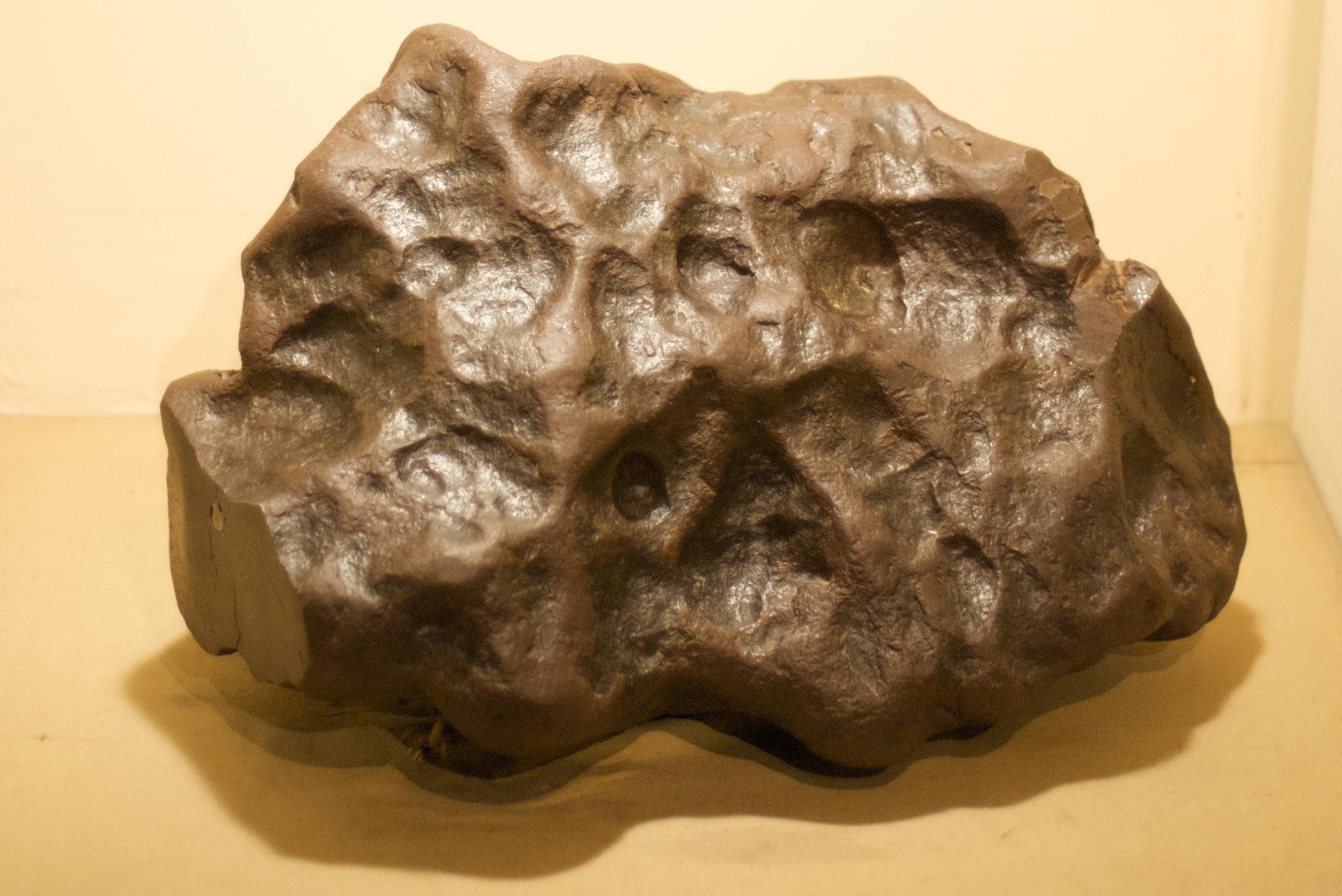 Caperr meteorite, Iron IIIAB. Main mass 113.9 kg